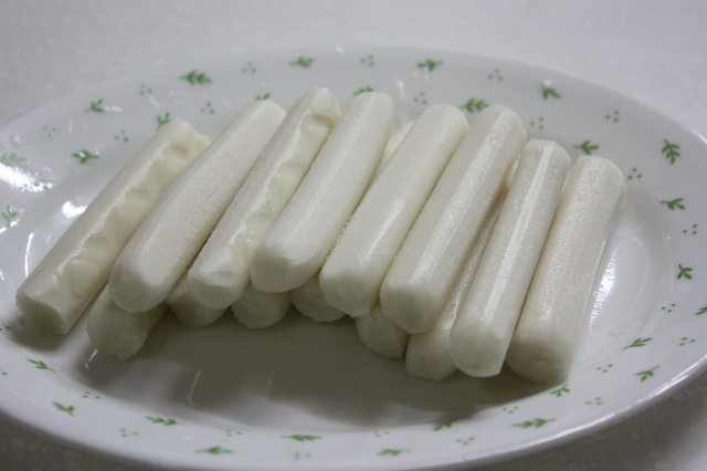 Frozen tteokmyeon (rice cake noodles)